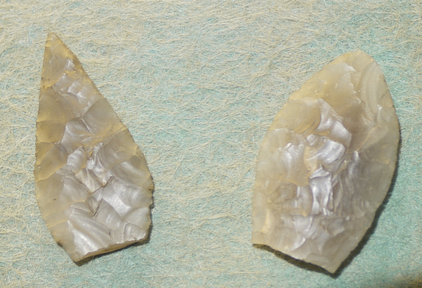 Photo of two Neolithic arrow heads found in selsey